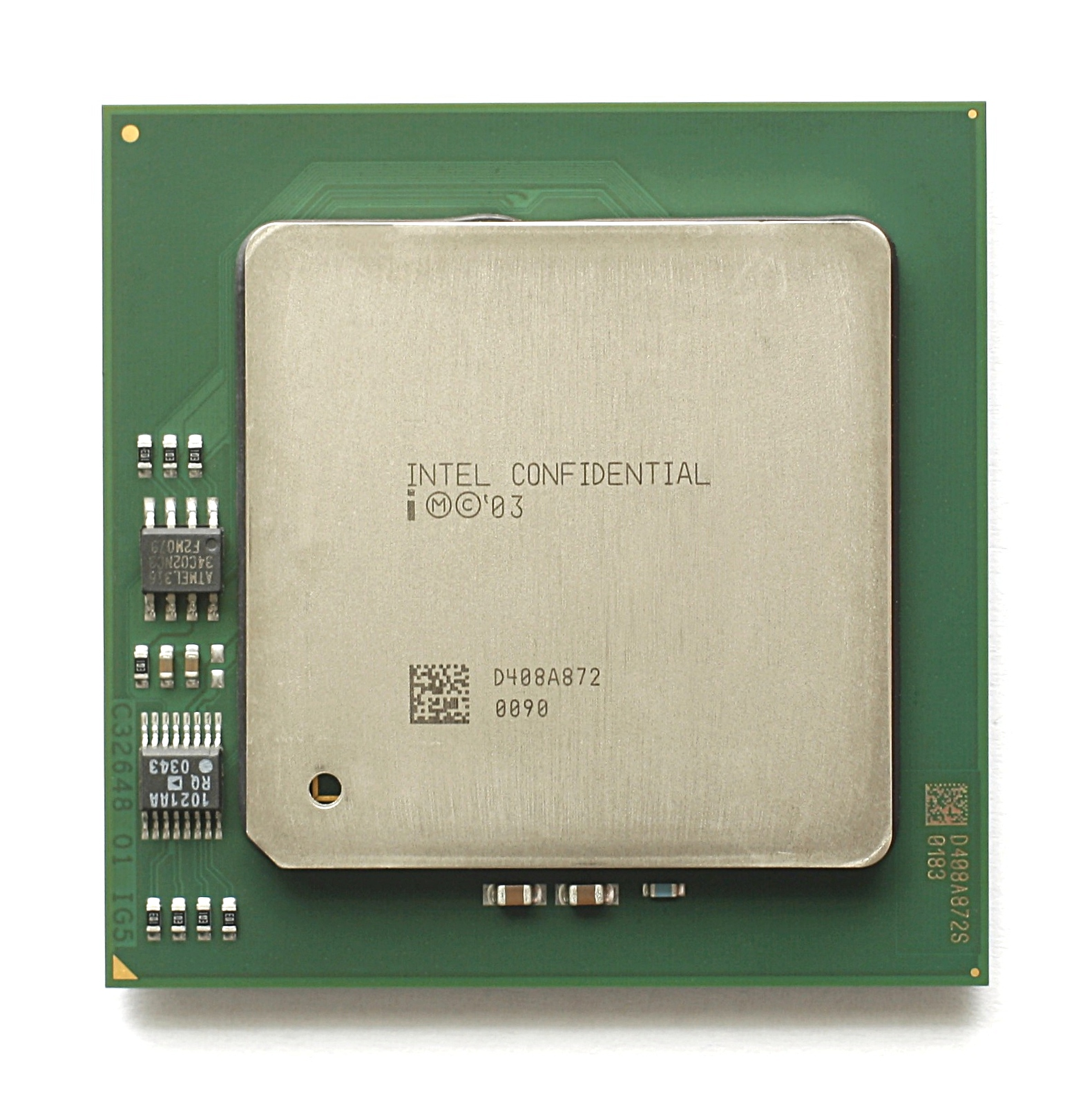 CPU Intel Xeon MP Potomac Engineering Sample (8 MB L3-Cache))